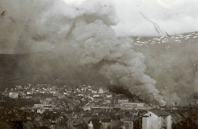 Narvik burns after German bombing during World War 2